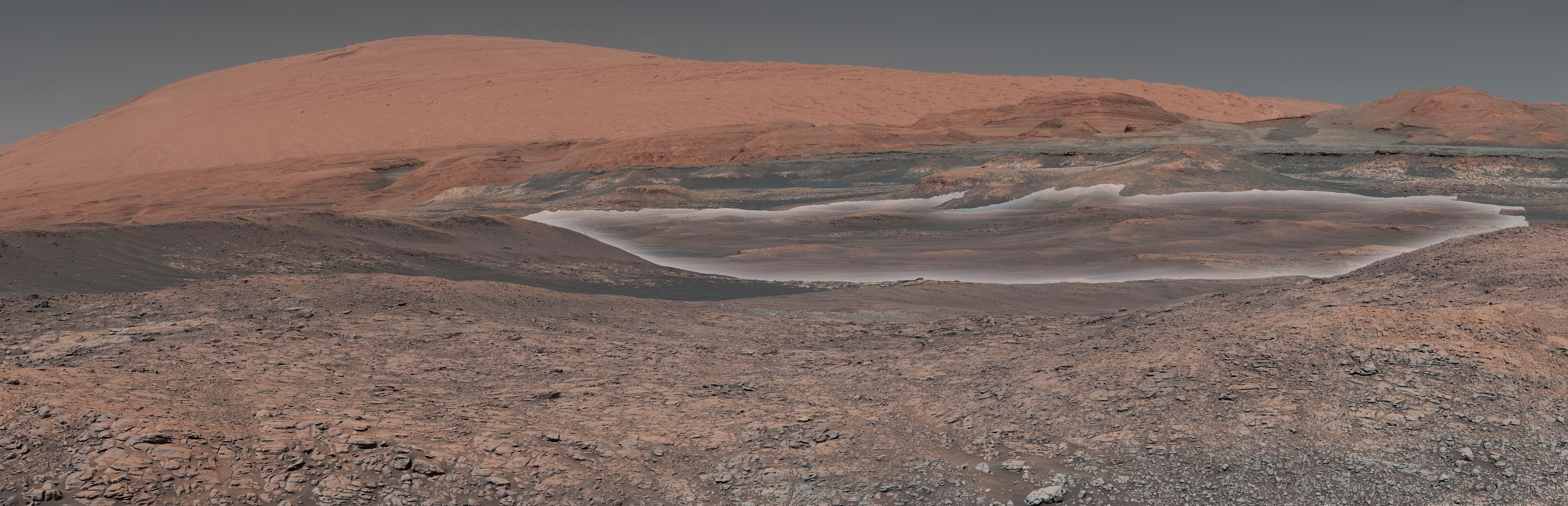 PIA22312: Curiosity is Ready for Clay (Highlighted) - Sol 1931 - 11 January 2018 (region - highlighted) (region - not highlighted) This mosaic taken by NASA's Mars Curiosity rover looks uphill at Mount Sharp, which Curiosity has been climbing. Highlighted in white is an area with clay-bearing rocks that scientists are eager to explore; it could shed additional light on the role of water in creating Mount Sharp. The mosaic was assembled from dozens of images taken by Curiosity's Mast Camera (Mastcam). It was taken on Sol 1931 back in January. Mount Sharp stands in the middle of Gale Crater, which is 96 miles (154 kilometers) in diameter. This mound, which Curiosity has been climbing since 2014, likely formed in the presence of water at various points of time in Mars ancient history. That makes it an ideal place to study how water influenced the habitability of Mars billions of years ago. The scene has been white-balanced so the colors of the rock materials resemble how they would appear under daytime lighting conditions on Earth. Malin Space Science Systems, San Diego, built and operates the Mastcam. NASA s Jet Propulsion Laboratory, a division of the Caltech in Pasadena, California, manages the Mars Science Laboratory Project for NASA s Science Mission Directorate, Washington. JPL designed and built the project s Curiosity rover. More information about Curiosity is online at and